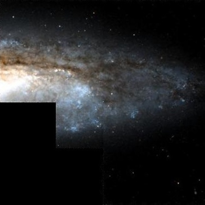 NGC 4527 - Hubble Space Telescope - Hubble Legacy Archive